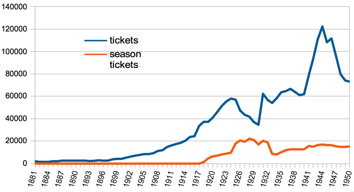 tickets and season tickets from "Statement of Revenue for each Station for the Year ended" annual returns to Parliament